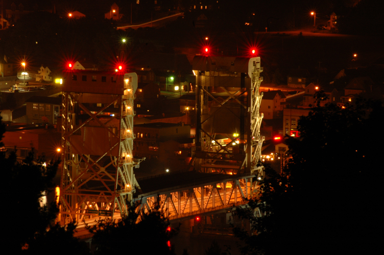 View at night of the Portage Lake Lift Bridge between Houghton, MI and Hancock, MI from US-41 north of Hancock. Taken by Kenneth S. Barnt, September 11, 2005